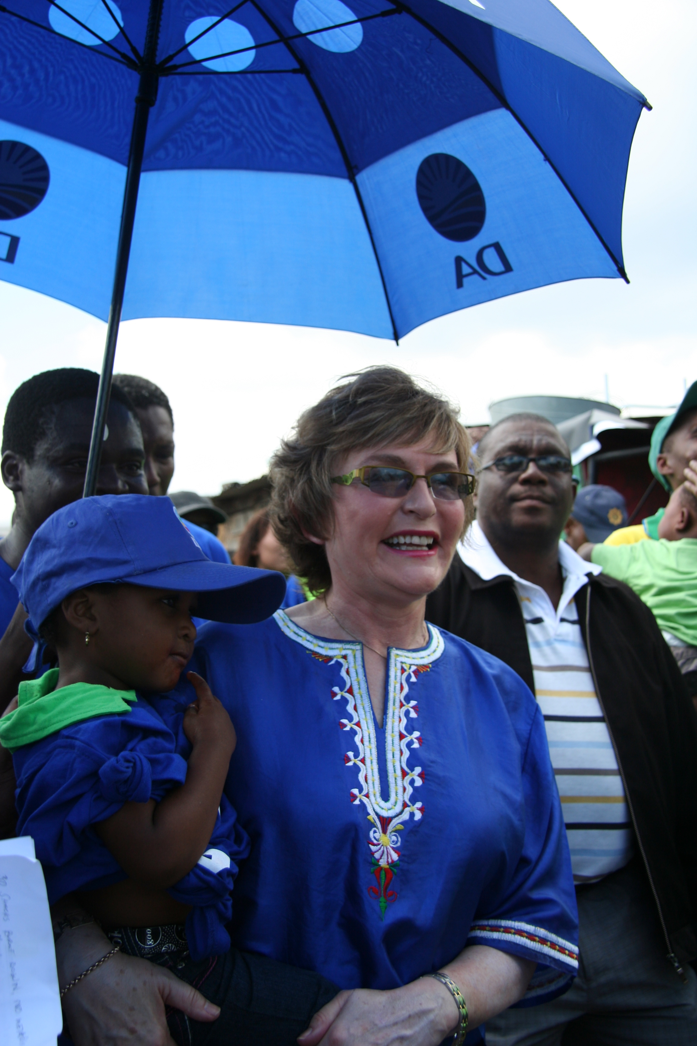 Helen Zille's visit to Mpumulanga- Jan2011